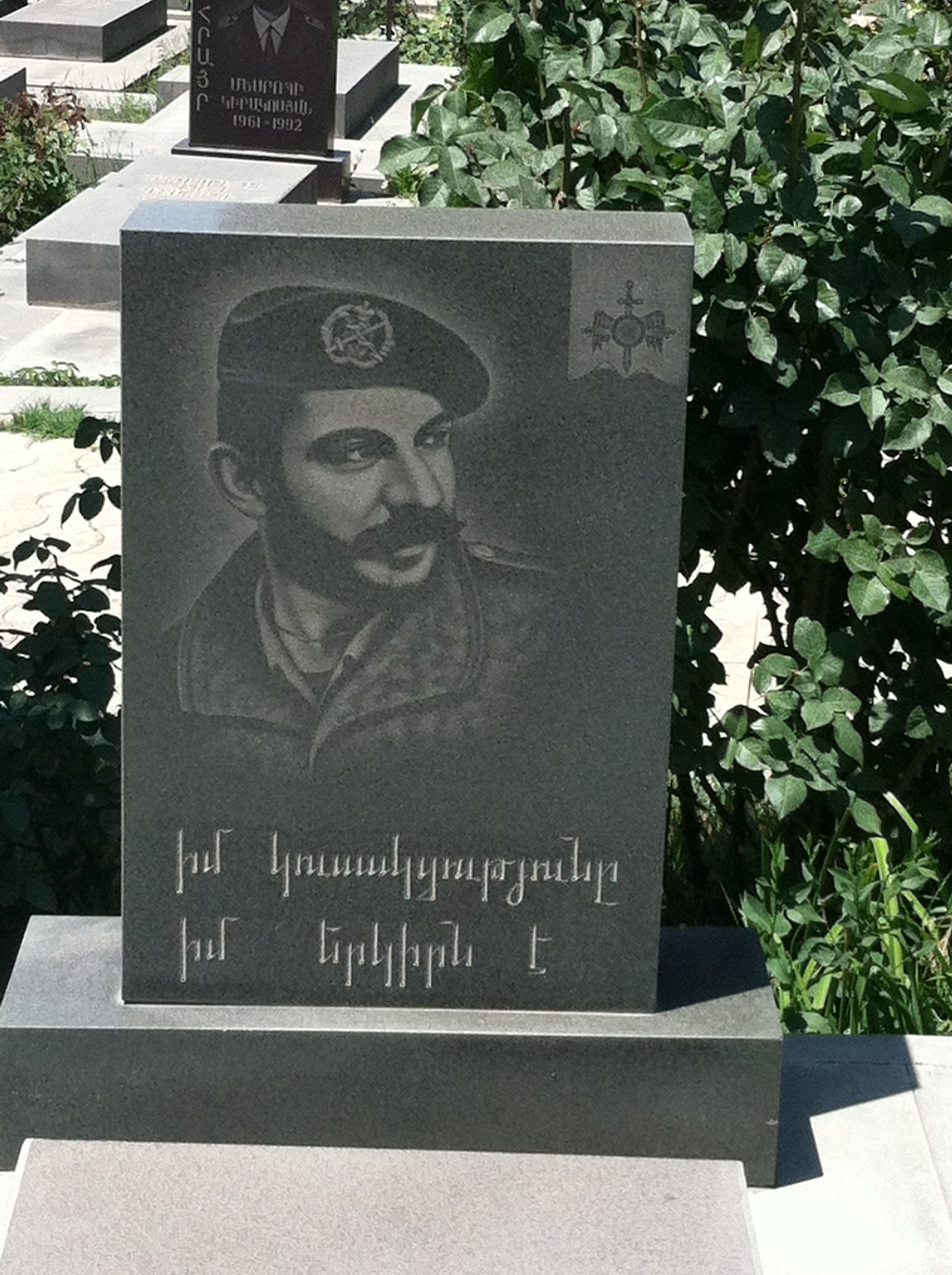 Photo of Garo Kahkejian's grave.